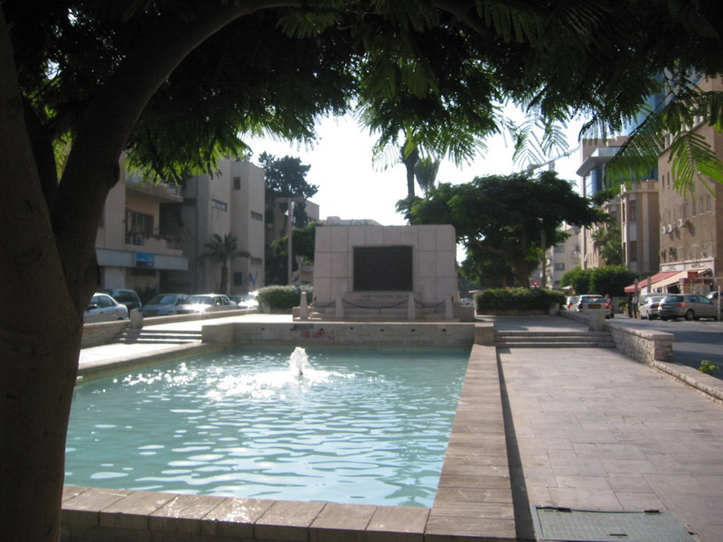 Rothschild Boulevard, Tel Aviv